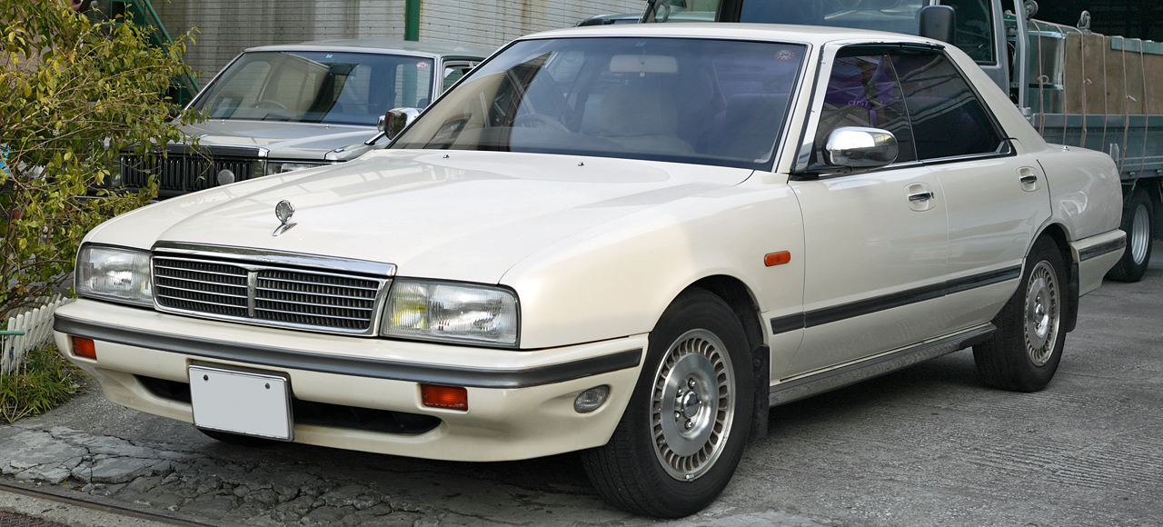 Nissan Cedric Cima ( FPY31 )